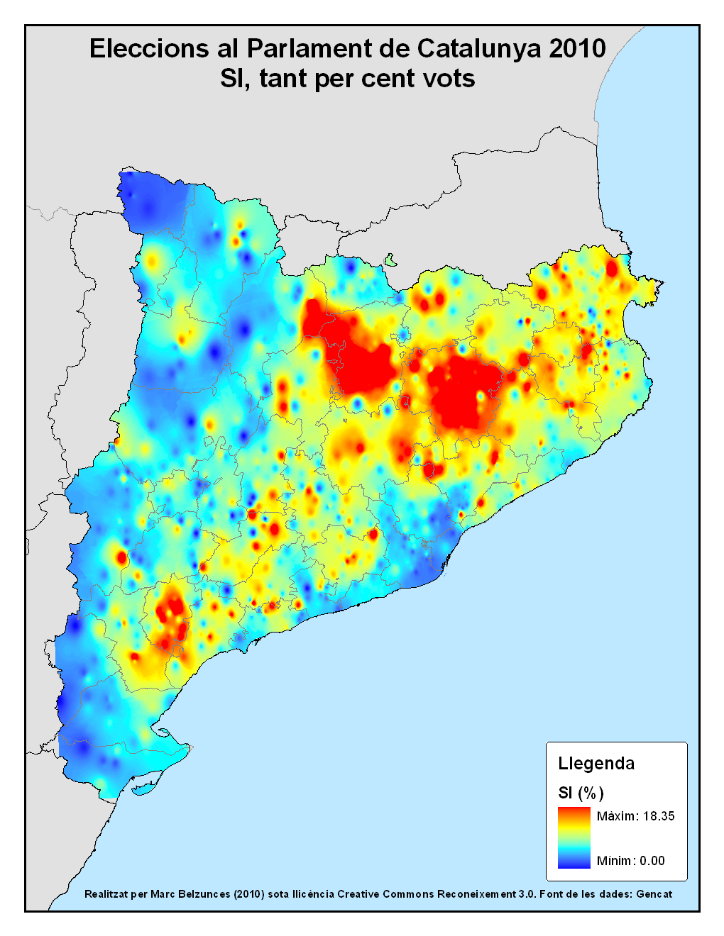 Distribution of the vote to Solidaritat Catalana per la Independència (Catalan Solidarity for independence) in elections to the Parliament of Catalonia 2010.